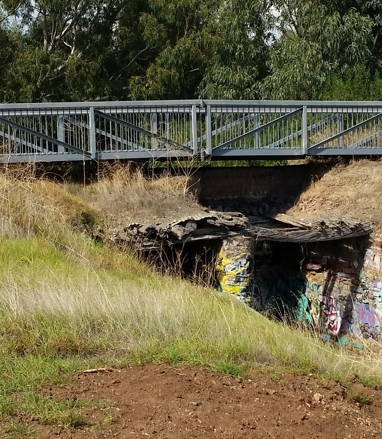 Remains of Morrow Road Bridge, Christies Beach. Also shows part of the steel footbridge that has been built over the top of the original wooden road bridge.